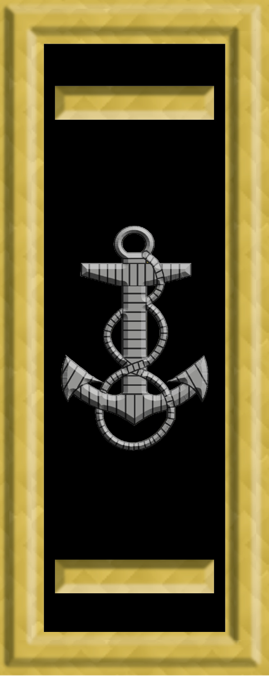 Master rank insignia for the United States Navy during the Civil War.